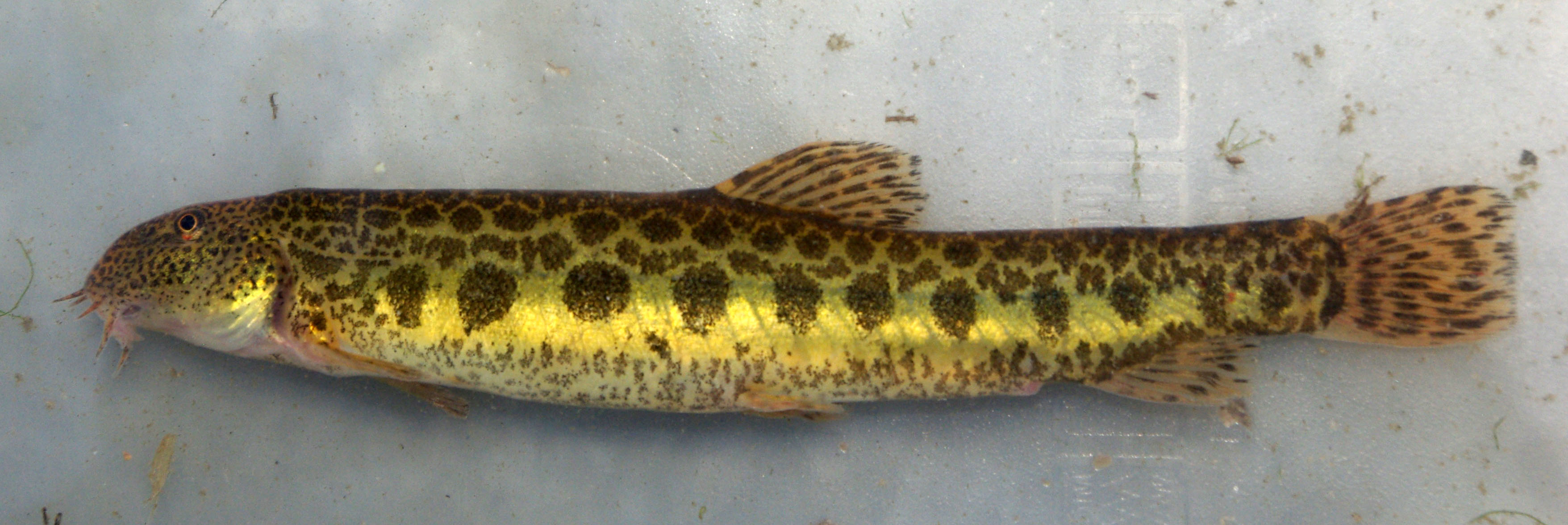 Spotted display of Cobitis paludica. River Esgueva, near Renedo de Esgueva (Valladolid, Spain)